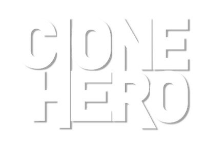 "Clone Hero" is white block letters.